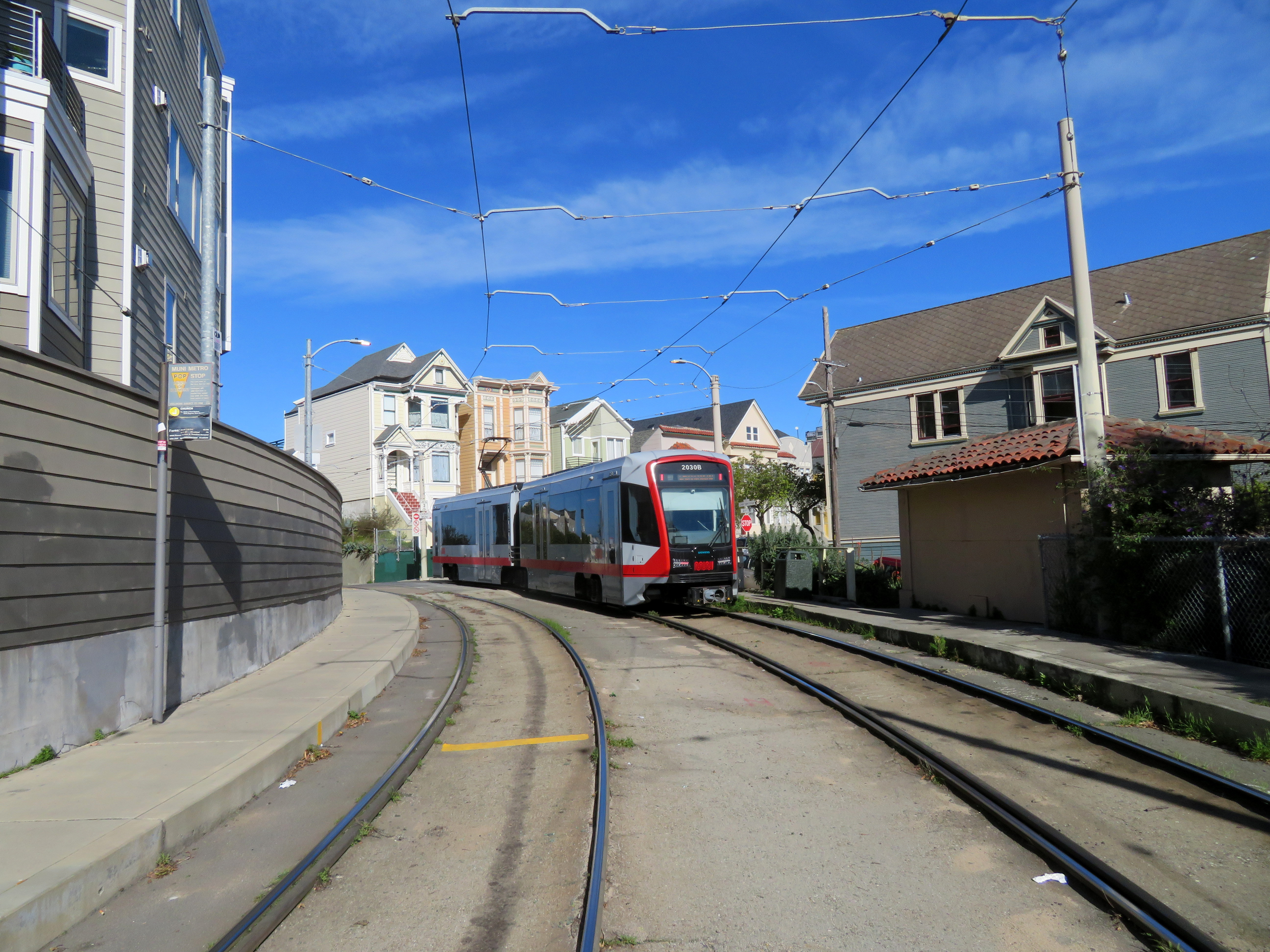 An inbound train at Right Of Way/21st Street station in January 2019